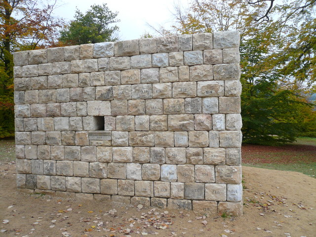 Chatsworth Gardens Makom by Michal Rovner. Another sculpture, part of the Sotheby's 'Beyond Limits' exhibition.